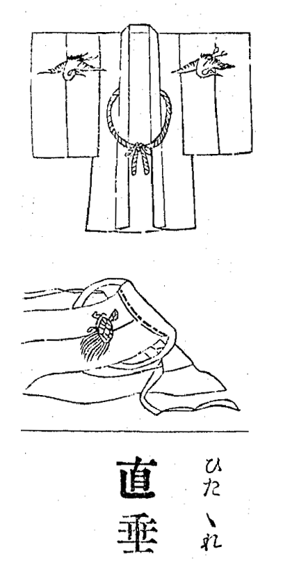 Hitatare. One of Kimonoes as Japanese traditional wear.